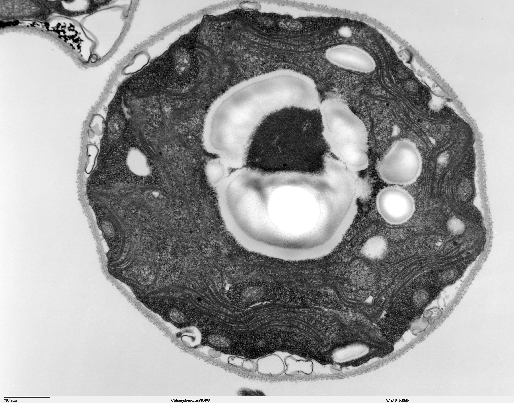 Transmission electron microscope image, showing an example of green algae (Chlorophyta). Chlamydomanas reinhardtii is a unicellular flagellate used as a model system in molecular genetics work and flagellar motility studies. This image of a thin section through a whole Chlamydomonas, shows the chloroplast, pyrenoid(surrounded by a shell of starch grains), and the cell wall.